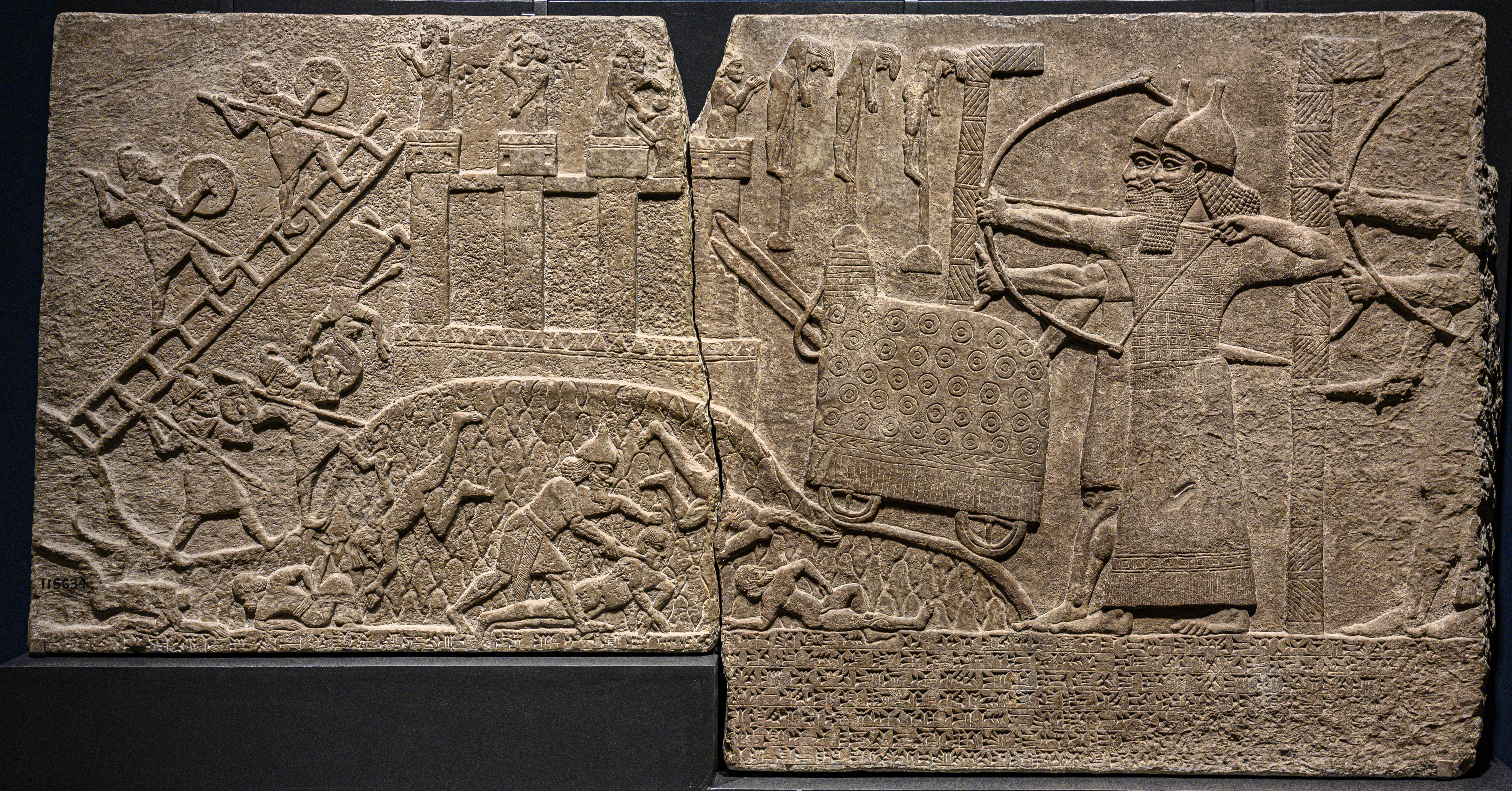 Assyrian Relief Attack on Enemy Town from Kalhu (Nimrud) Central Palace reign of Tiglath-pileser III 730-727 BCE British Museum collection photographed at The Getty Villa